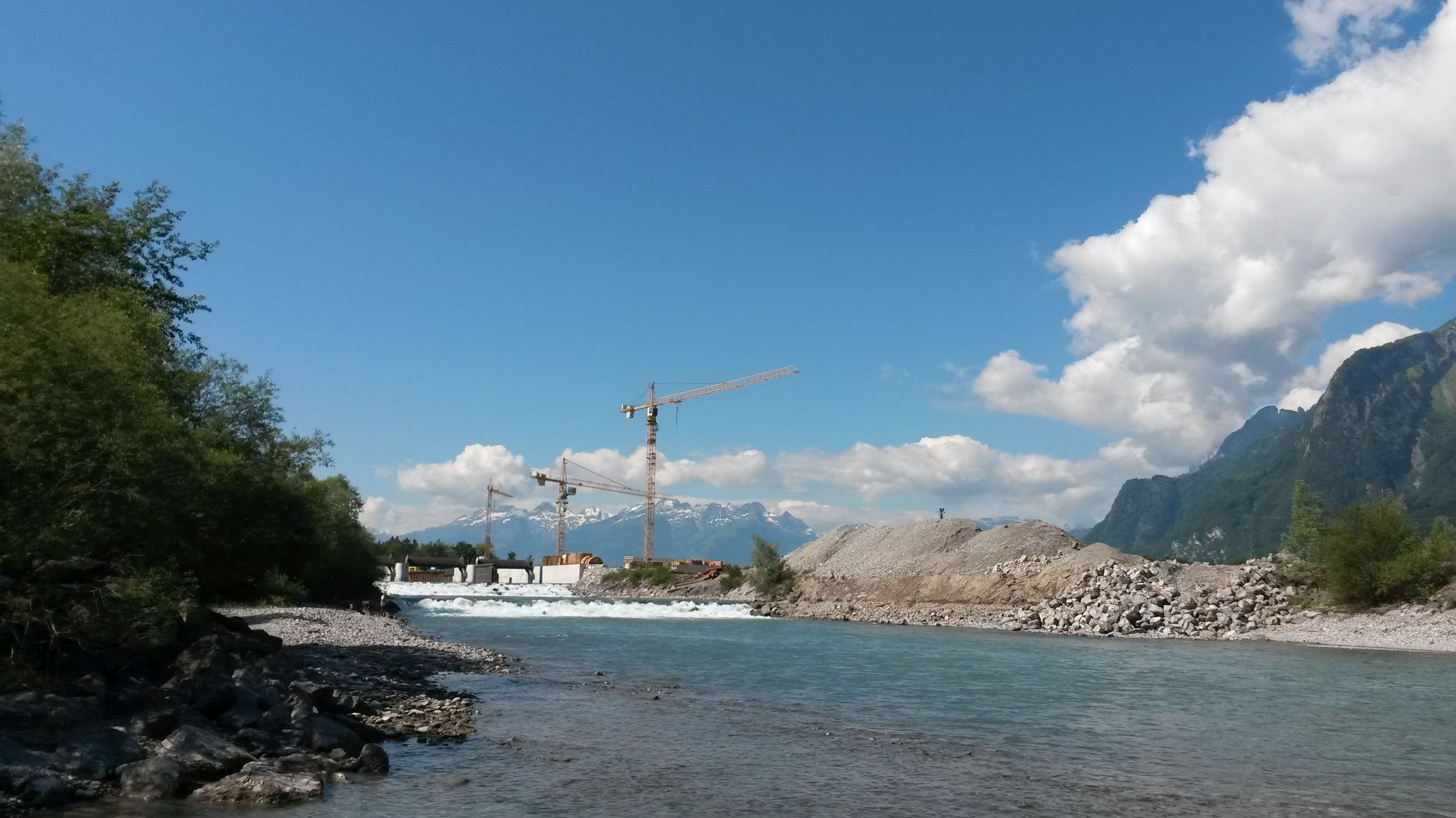 Illspitz power plant downstream photographed, two months before completion